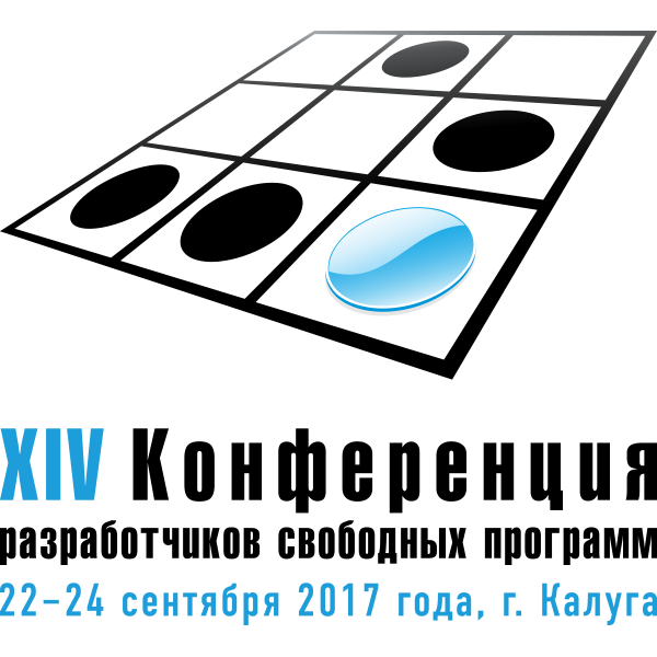 Logo of Open Source Software Developer Conference 2017